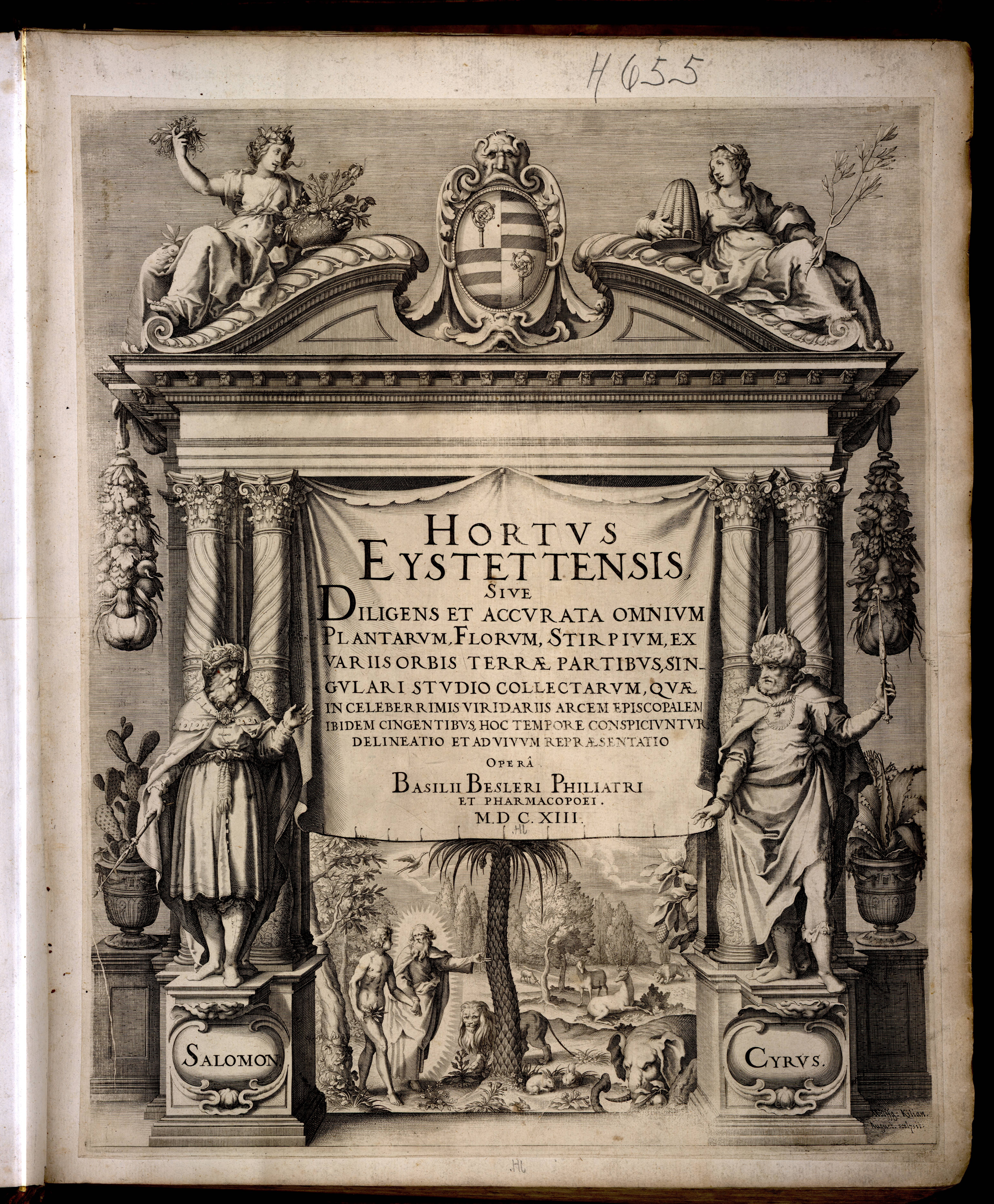 Title of "Hortus Eystettensis"